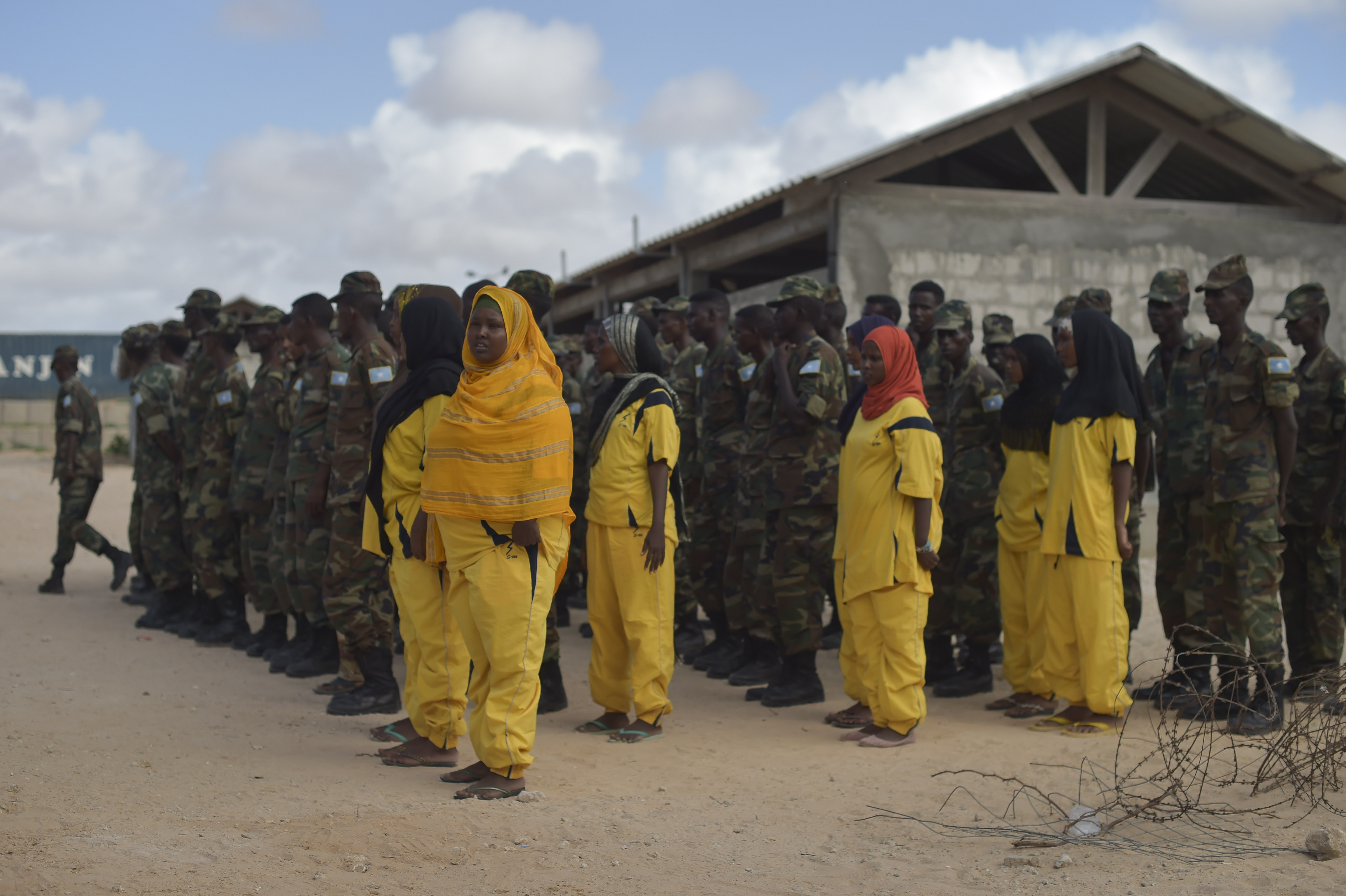 Men and Women stand in formation at Jazeera Military Camp in Mogadishu, Somalia, before embarking on a training excercise with European Union instructors on May 16. The class of Military Police, including both men and women, are currently being trained at the camp in order to aid the Somali National Army. AMISOM PHOTO / Tobin Jones